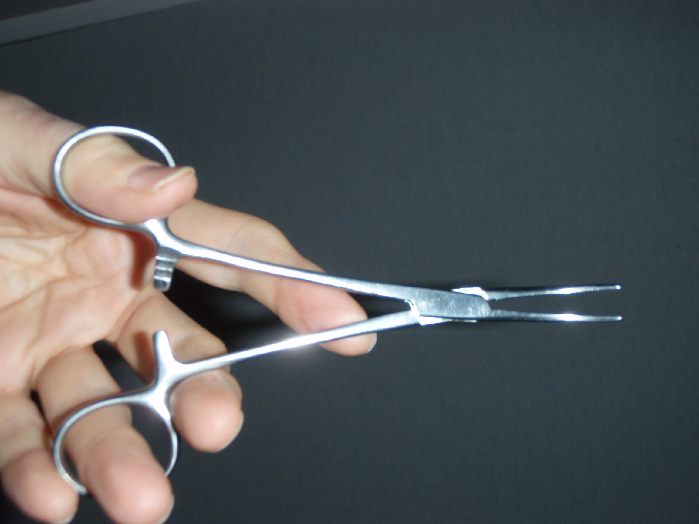 Pean / arteryforceps for surgical operations.